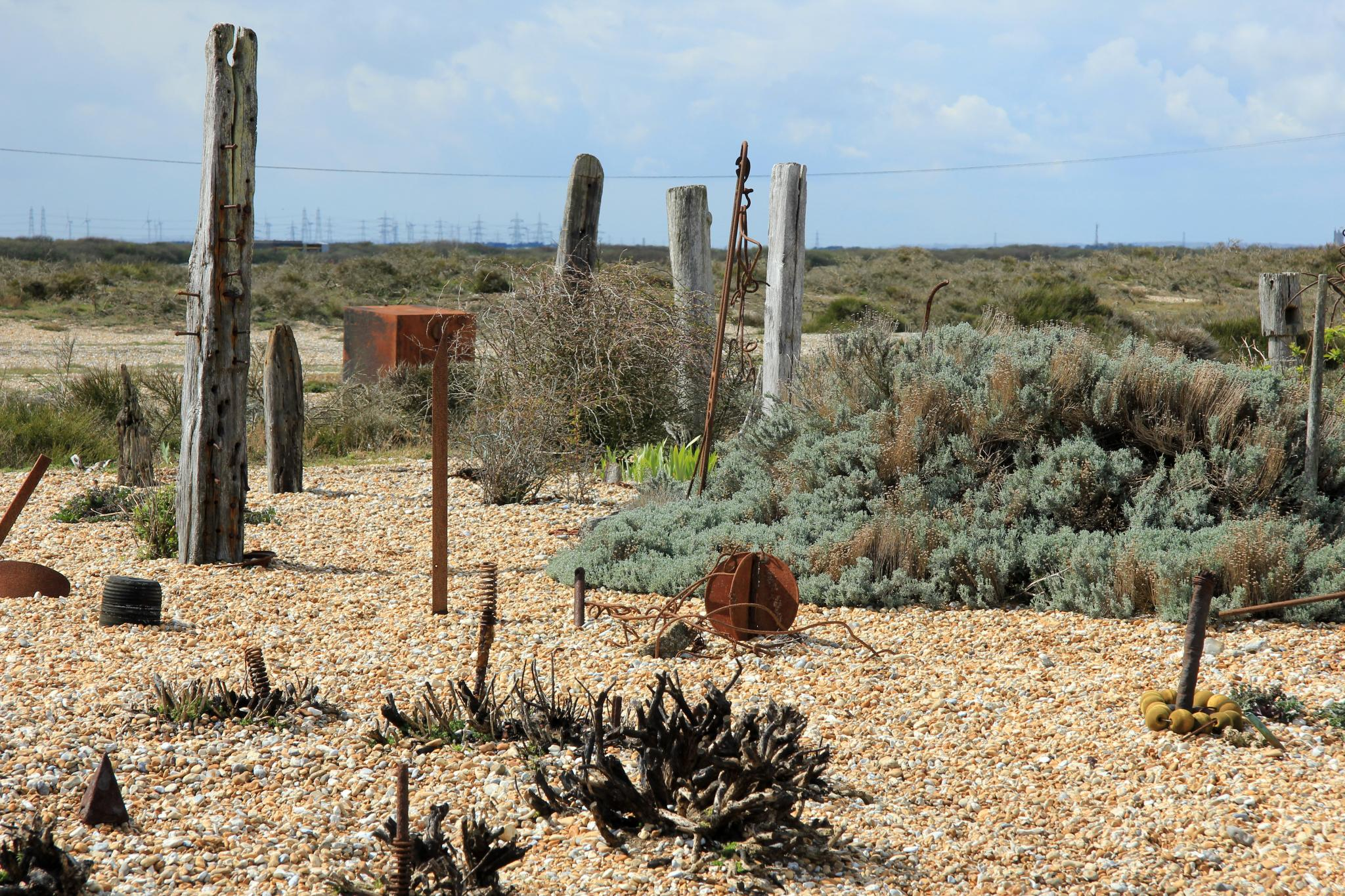 Dungeness is a headland on the coast of Kent, England, formed largely of a shingle beach in the form of a cuspate foreland. It shelters a large area of low-lying land, Romney Marsh. Dungeness is also the name given to a “village” situated along the beach, and to an important ecological site on the same location. It is one of the largest expanses of shingle in the world. It is of international conservation importance for its geomorphology, plant and invertebrate communities and birdlife. Dungeness is not truly a village, more a scattered collection of dwellings. Some of the homes, small wooden houses in the main, many built around old railway coaches, are owned and lived in by fishermen, whose boats lie on the beach; some are occupied by people trying to escape the pressured outside world. The shack-like properties have a high value on the property market. Perhaps the most famous house is Prospect Cottage, formerly owned by the late artist and film director Derek Jarman. The cottage itself is painted black, with a poem, part of John Donne's “The Sunne Rising”, written on one side in black lettering. The garden however is the main attraction. Reflecting the bleak, windswept landscape of the peninsula, Derek Jarman's garden is made of pebbles, driftwood, scrap metal and a few hardy plants. There is a remarkable and unique variety of wildlife living at Dungeness, with over 600 different types of plant (a third of all those found in Britain). It is one of the best places in Britain to find insects such as moths, bees and beetles, and spiders; many of these are very rare, some found nowhere else in Britain. The short-haired bumblebee, declared extinct in the UK nearly a decade ago, but which has survived in New Zealand after being shipped there more than 100 years ago, is to be reintroduced at Dungeness in the spring of 2010.